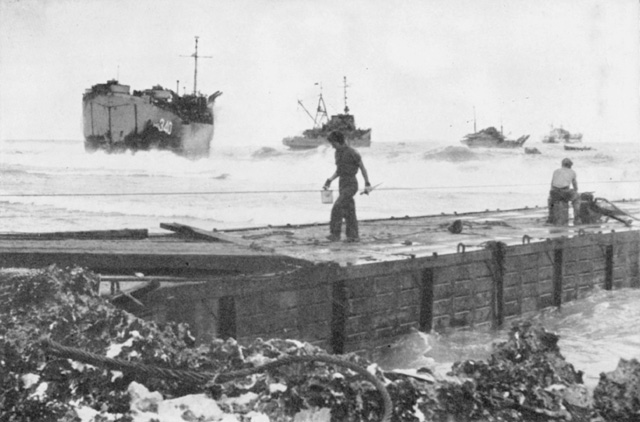 Ponton causeway to land with heavy weapons and LVT-ship that ran aground in the background. LVT-ship had been printed after the unloading of 24 trucks of a sudden strong wave in shallow water and accumulated on the lake bottom.